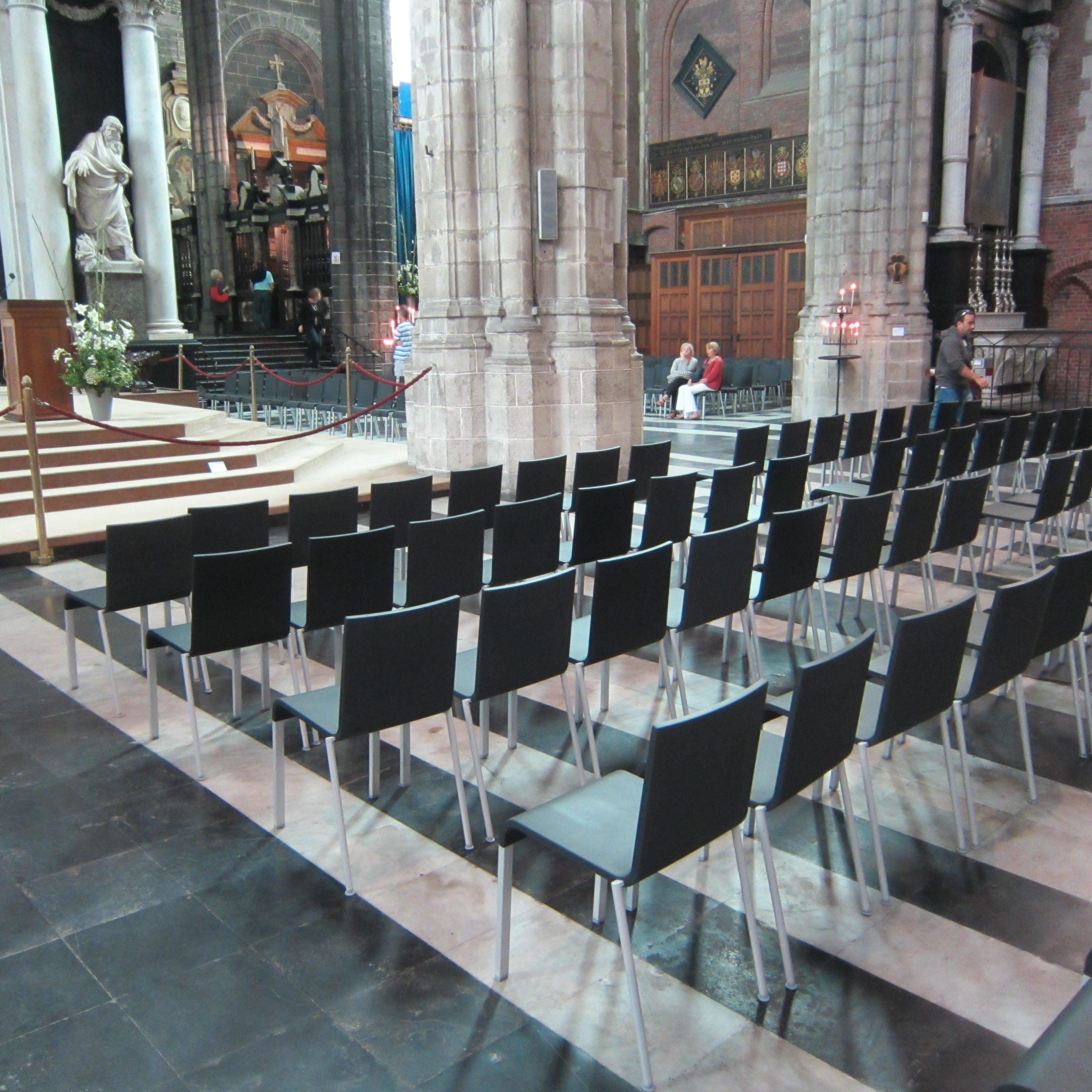 3.0 Chair Maarten Van Severen, Gent